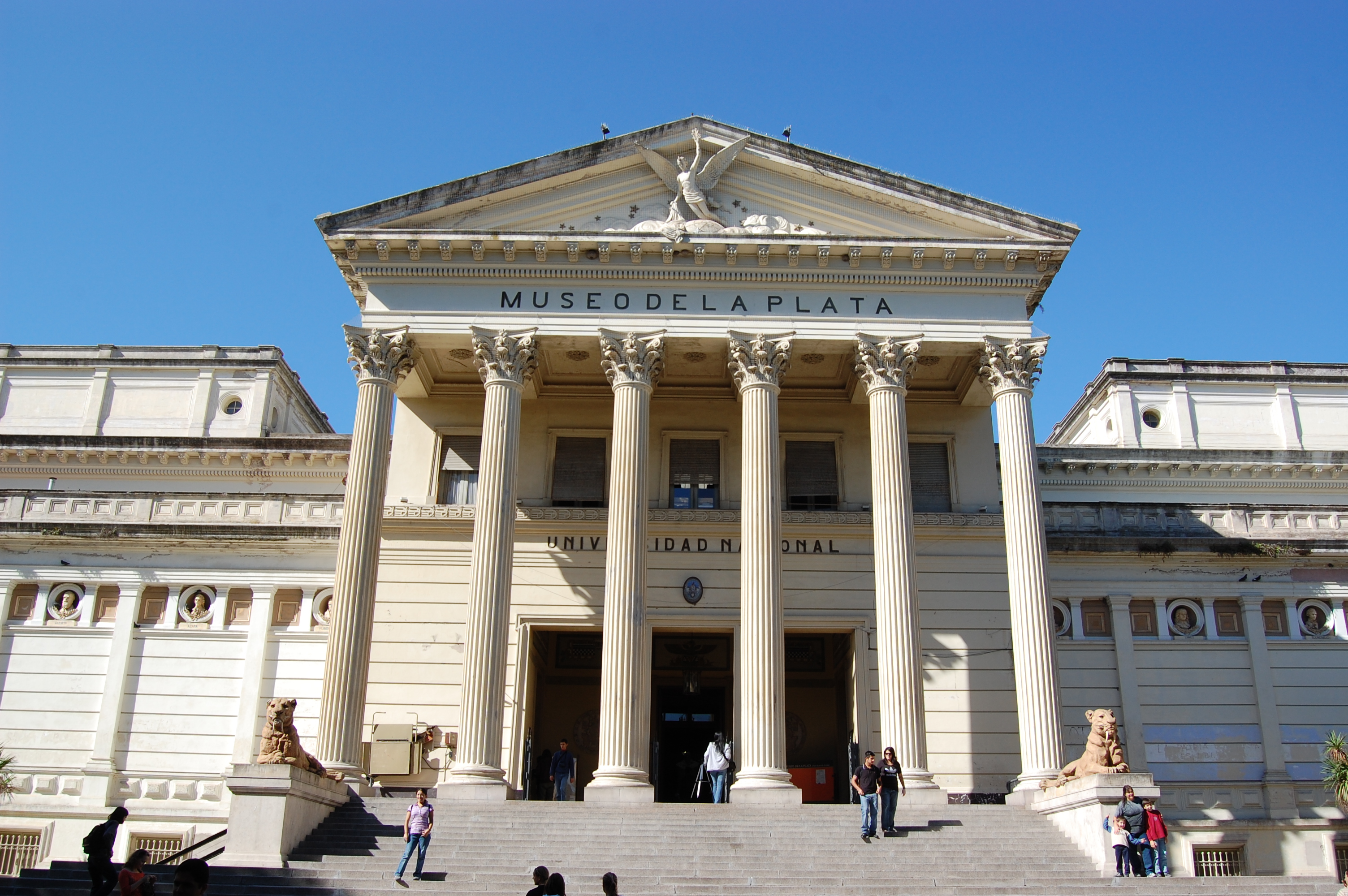 The façade of La Plata Museum, in Argentina.